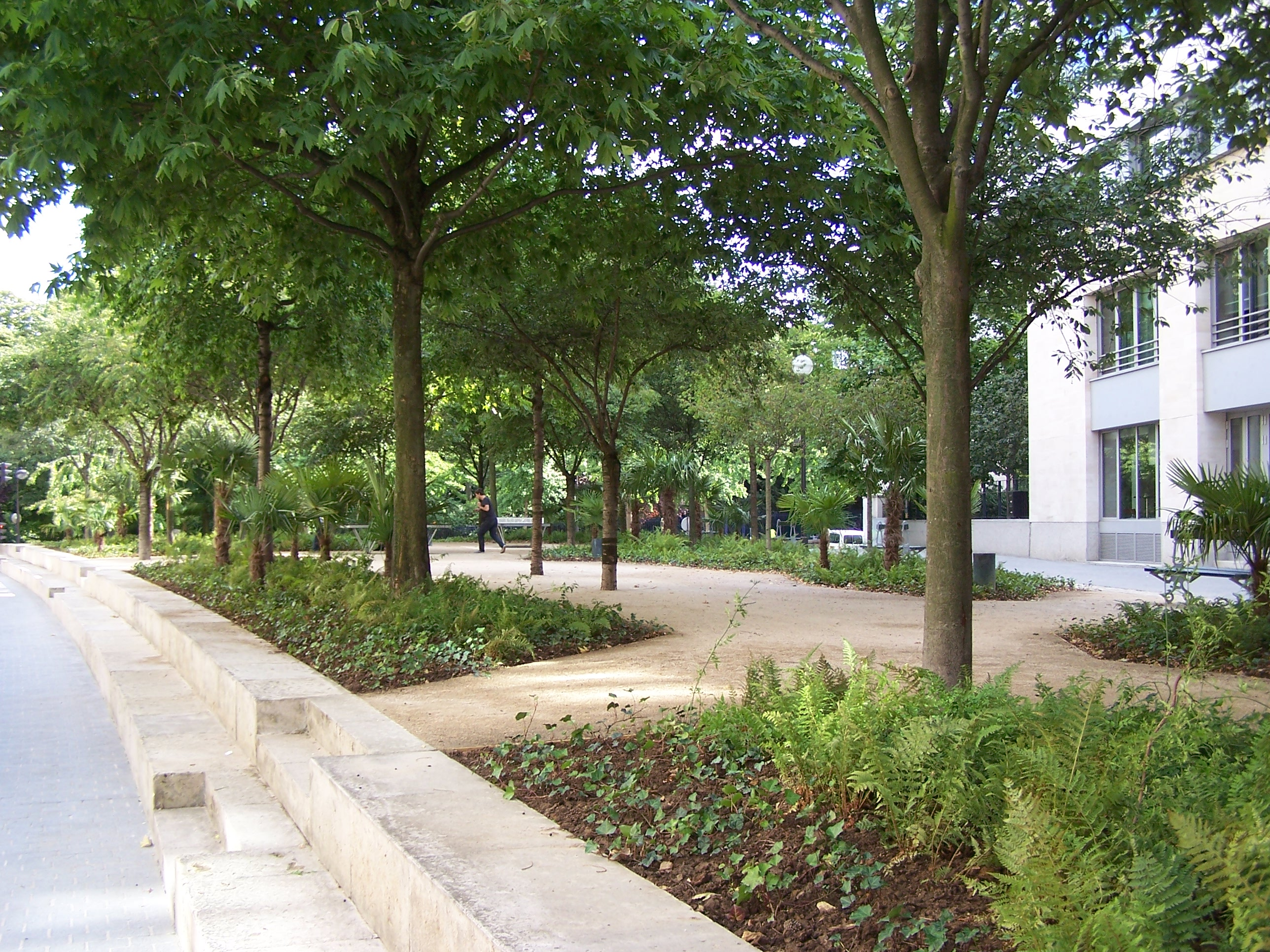 View of the place Mohamed-Bouazizi in Paris 14e arrondissement which has been inaugurated on the June 30th 2011 in memory of the young Tunisian Mohamed Bouazizi who immolated himself in Sidi Bouzid (Tunisia) on Dec 27th 2010, igniating the Revolution in his country and in various North Africa countries